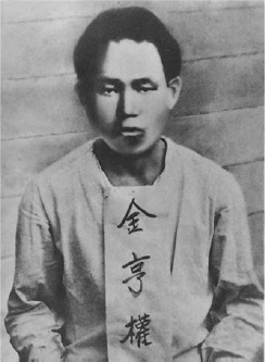 Portrait of Kim Hyong Gwon in Seodaemun Prison before his death in 1936.